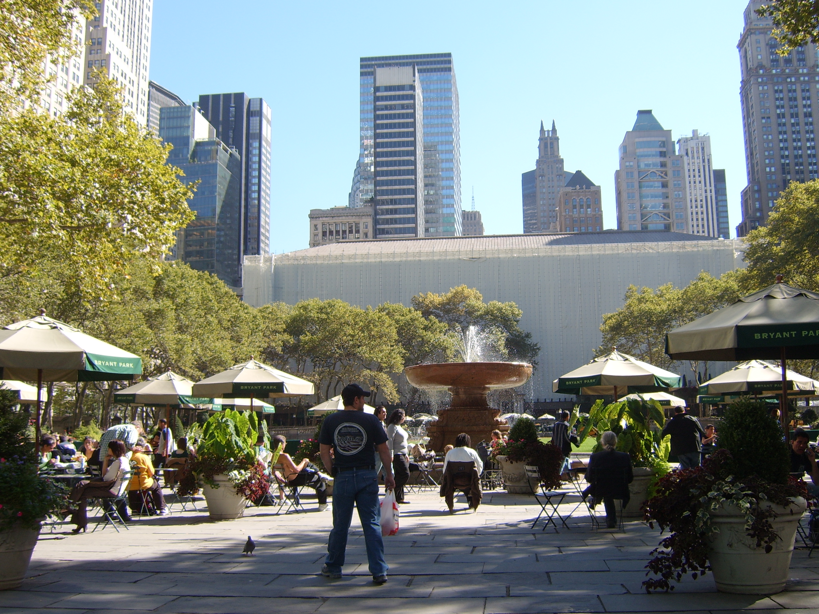 Manhattan, New York City